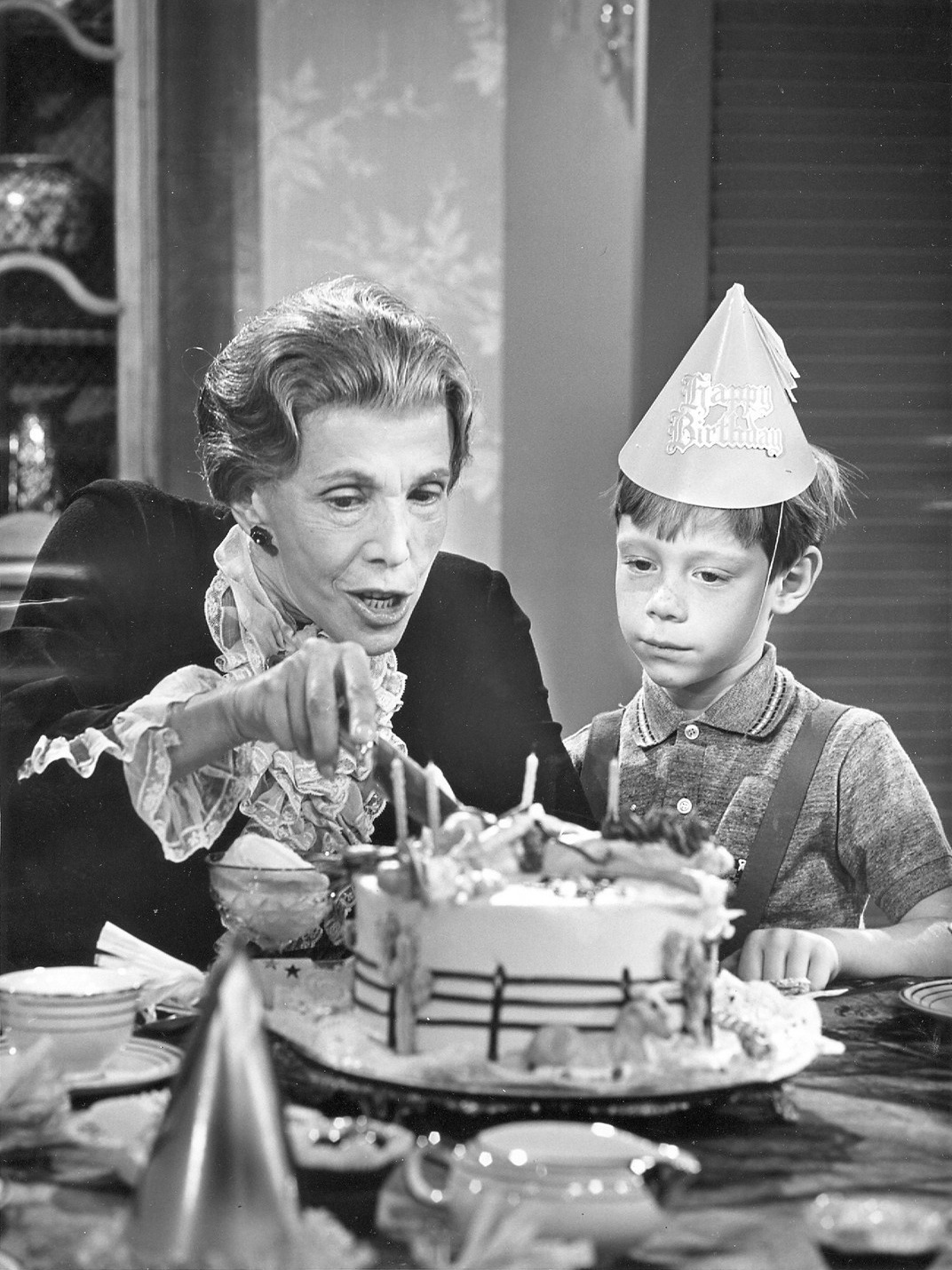 Publicity photo of American actors, Lili Darvas and Billy Mumy promoting their guest-starring roles on the CBS television series The Twilight Zone for the episode Long Distance Call.